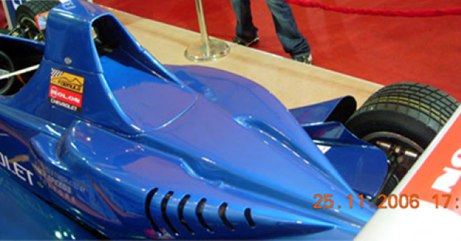 This Photograph of Formula Rolon Chevrolet was taken at an Autoshow by me.